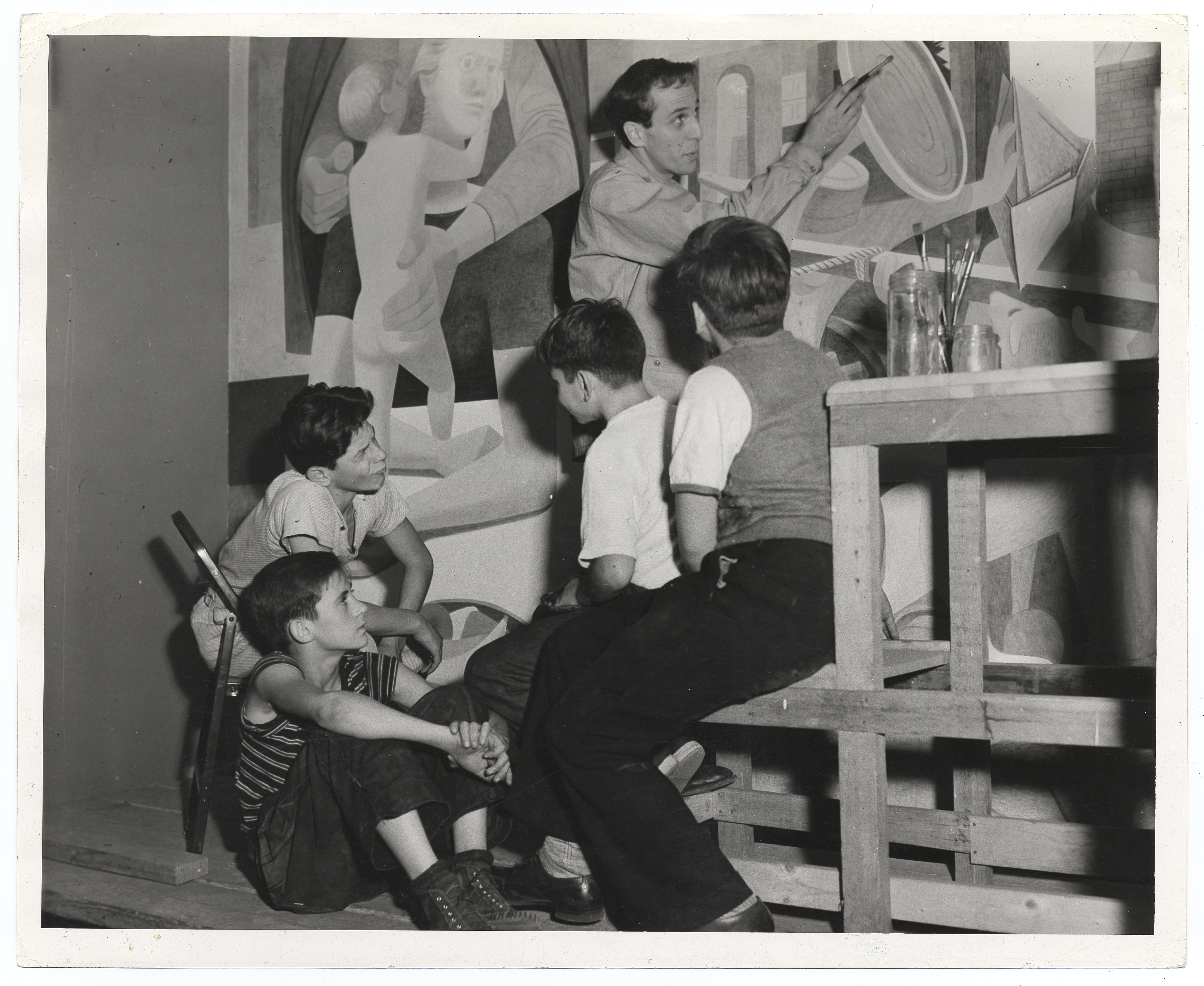 Guston working on a mural with a group of children looking on. Identification on verso (handwritten and stamped): Negative No.: 5077-3; Photographer: Libsohn; Date: 8/21/40; Title: Philip Guston working on mural; Location: Queensbridge Comm. House.